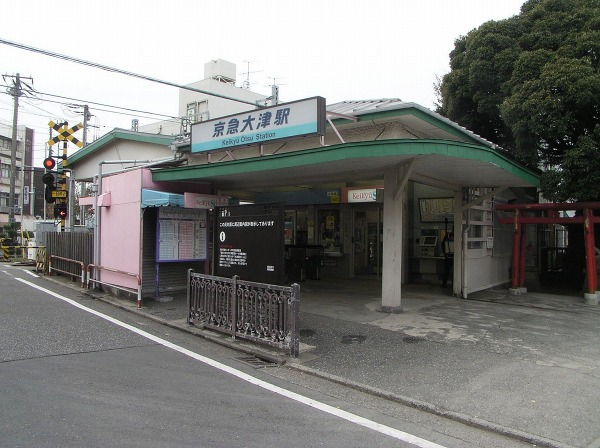 Keikyu Otsu station entrance. The gate of Otsu-shuku Inari is on the right of the station